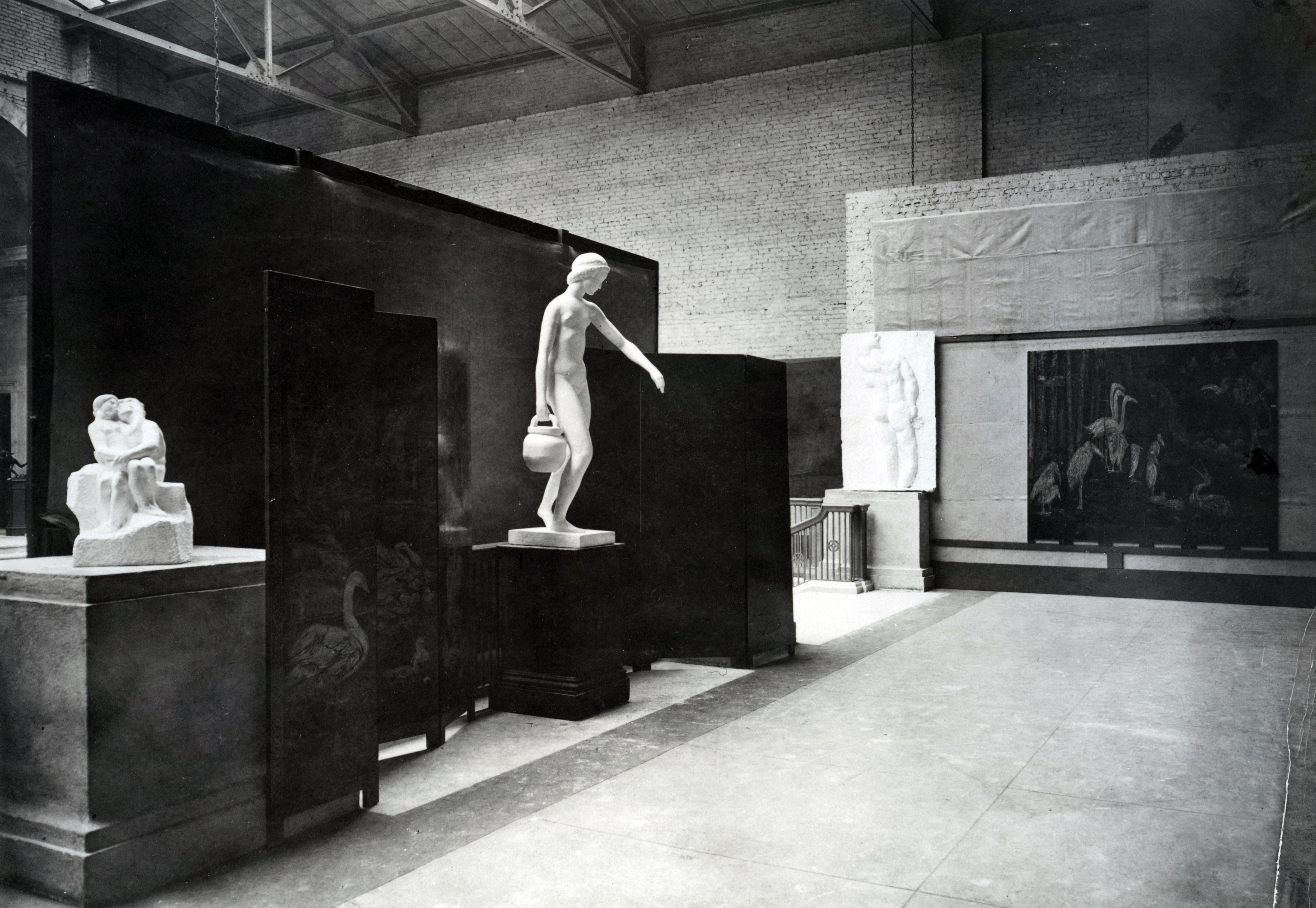 Armory Show, International Exhibition of Modern Art. French Paintings and Sculpture, Gallery 50 (top of the grand staircase, north), Art Institute of Chicago, March 24–April 16, 1913